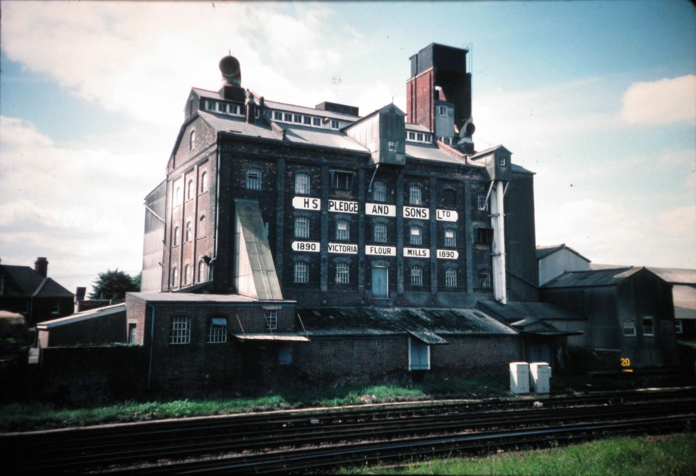 Victoria Mills, Ashford, Kent. View from front.